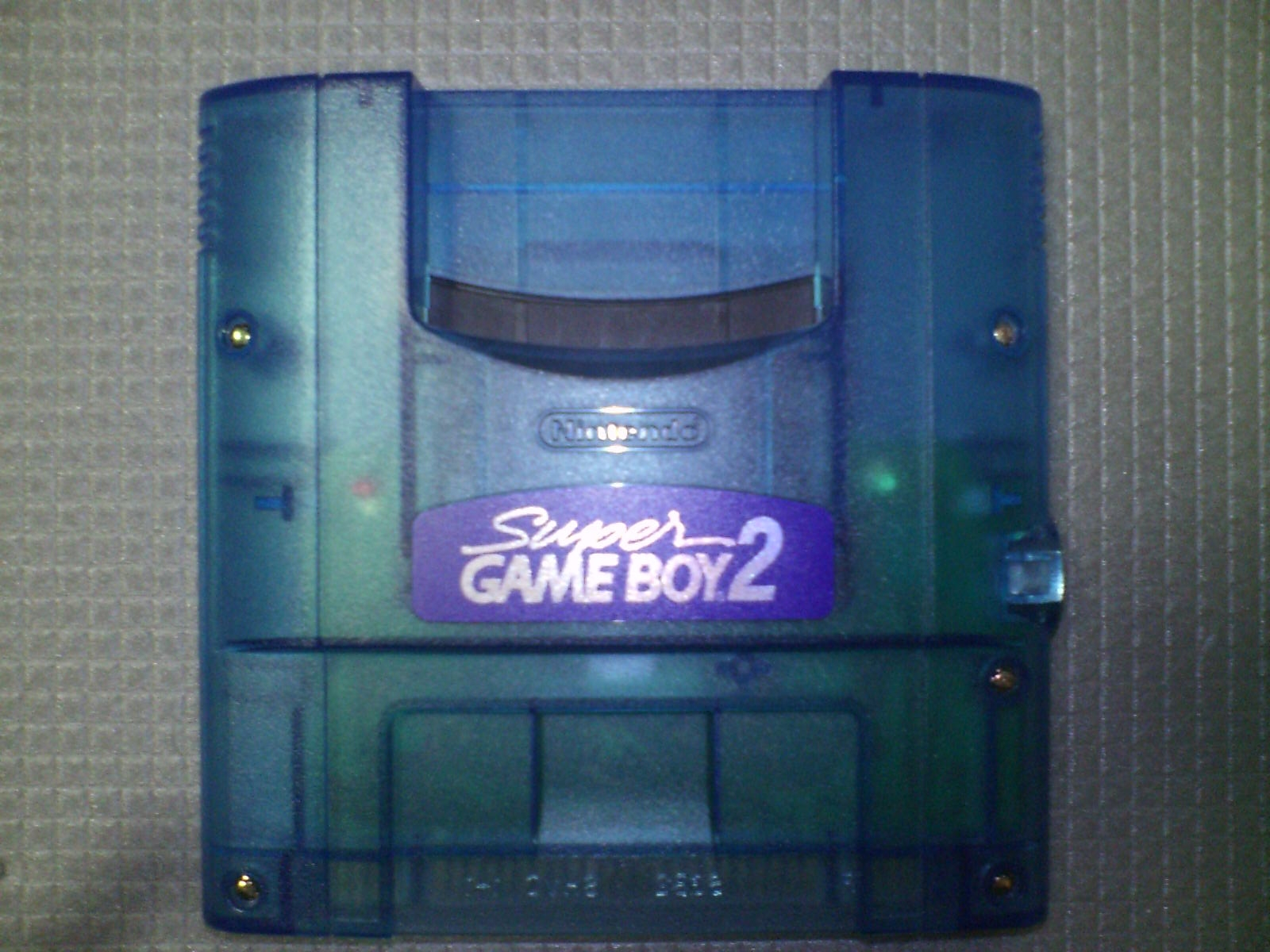 The Super Game Boy 2